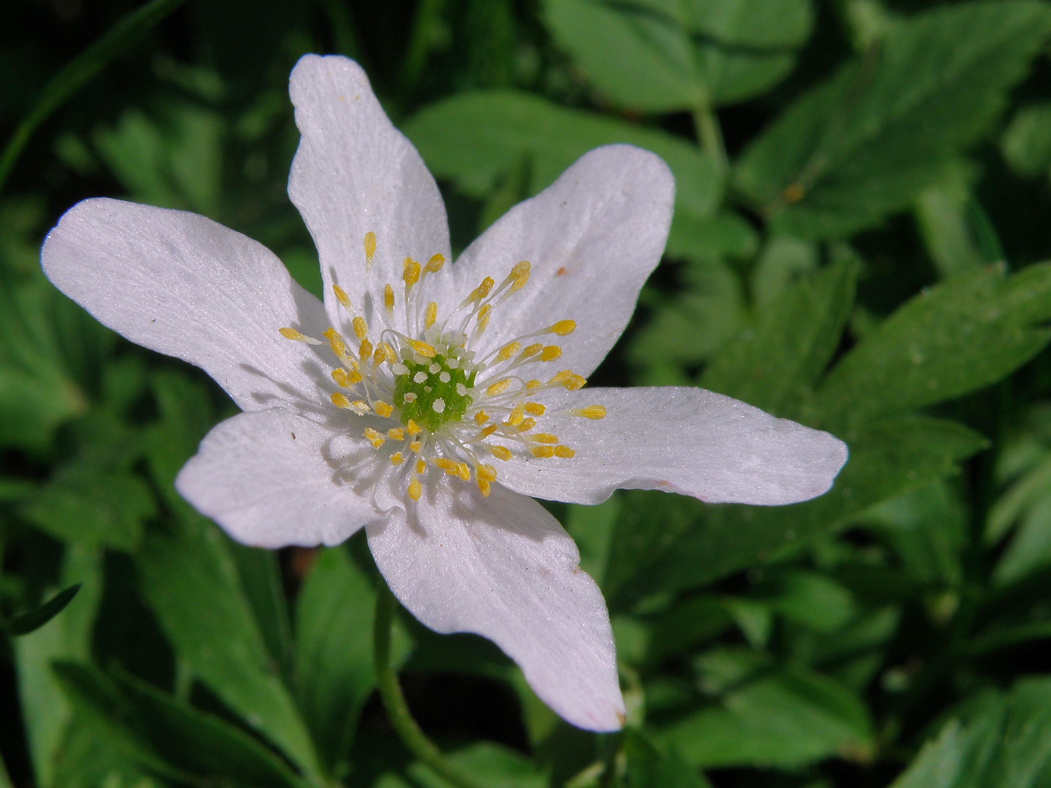 Anemone nemorosa (family Ranunculaceae)